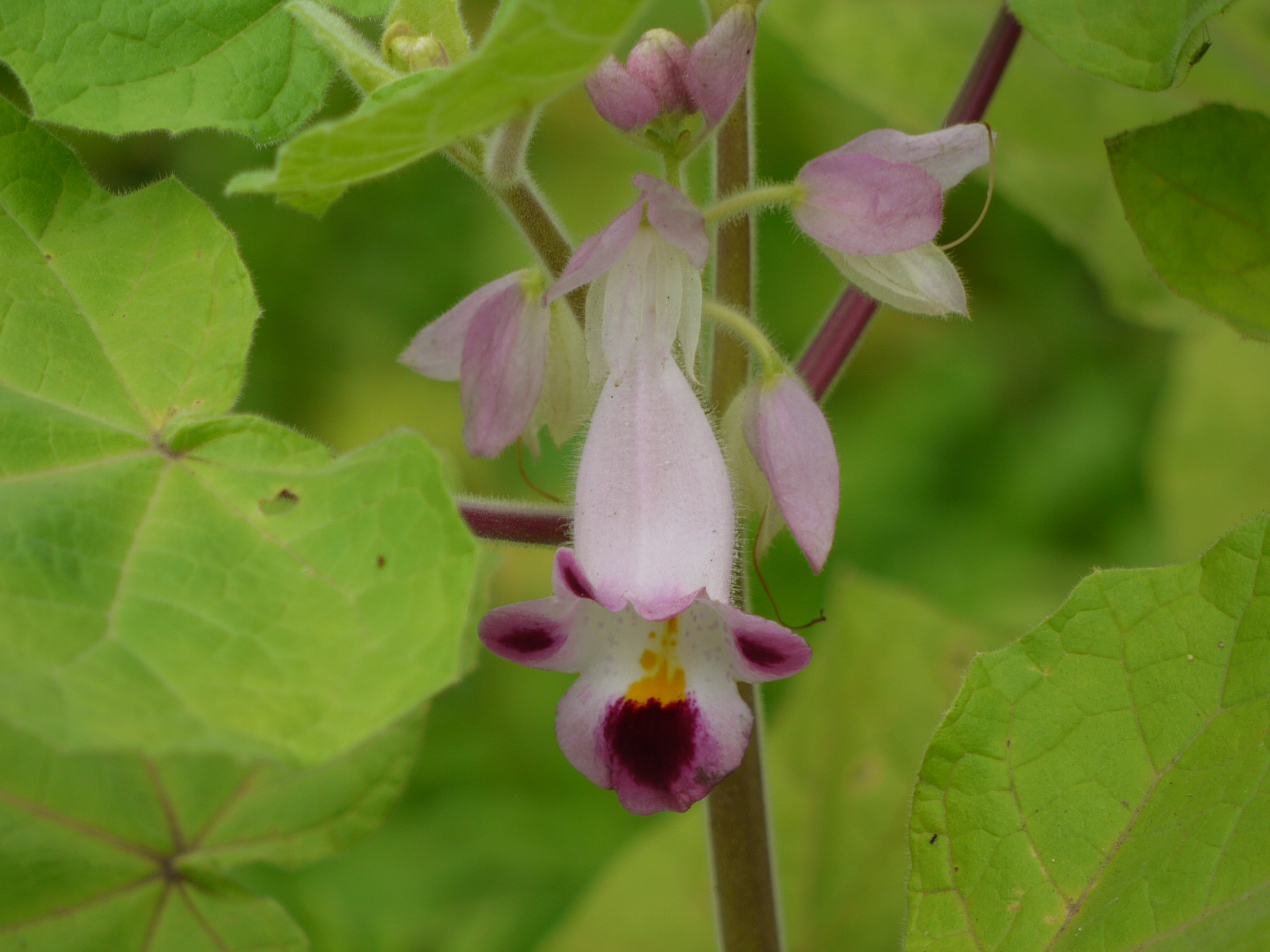 Martyniaceae (devil's claw family) » Martynia annua mar-TIN-ee-uh -- named for Dr. John Martyn, Professor of Botany at Cambridge University AN-yoo-uh -- meaning, annual commonly known as: devil's claw, iceplant, tiger's-claw • Bengali: বাঘনখী baghnakhi • Hindi: बाघनख baghnakh, हाथाजोड़ी hatha-jori, उलट-कांटा ulat-kanta • Kannada: ಗರುಡ ಮೂಗು ಮುಳ್ಳು garuda mugu mullu, ಹುಲಿ ನಖ huli nakha, ಹುಲಿ ಉಗುರು huli uguru • Malayalam: പുലിനഖം puli-nakham • Marathi: विंचू vinchu • Nepalese: बिरालो-नङ्ग्रि biralo-nangri, ग्रिध्दरनंकी gridharnankee • Oriya: ବାଘନଖି baghanakhi • Sanskrit: काकनसा kakanasa • Tamil: புலிநகம் puli-nakam, தேட்கொடுக்கி tet-kotukki • Telugu: గరుడముకు garudamukku Native to: Mexico and Central America; widely naturalized in tropics References: Flowers of India • PIER • eFlora